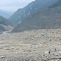 Remains of Xiaolin caused by Typhoon Morakot